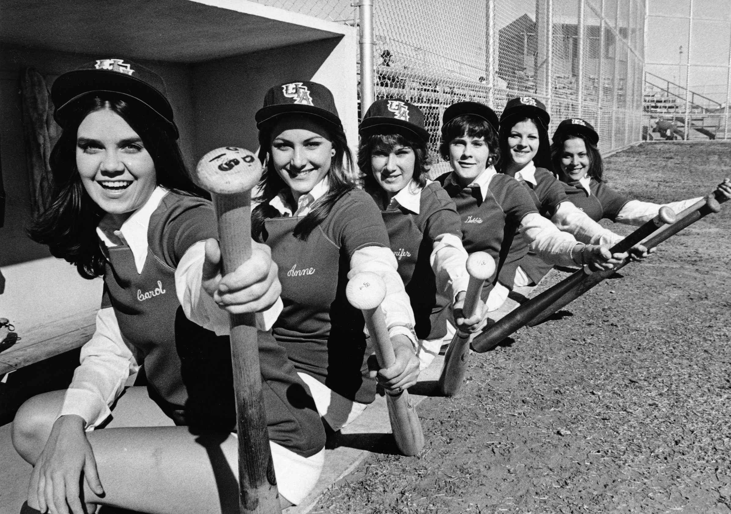 University of Texas at Arlington girl's softball team; names not identified.